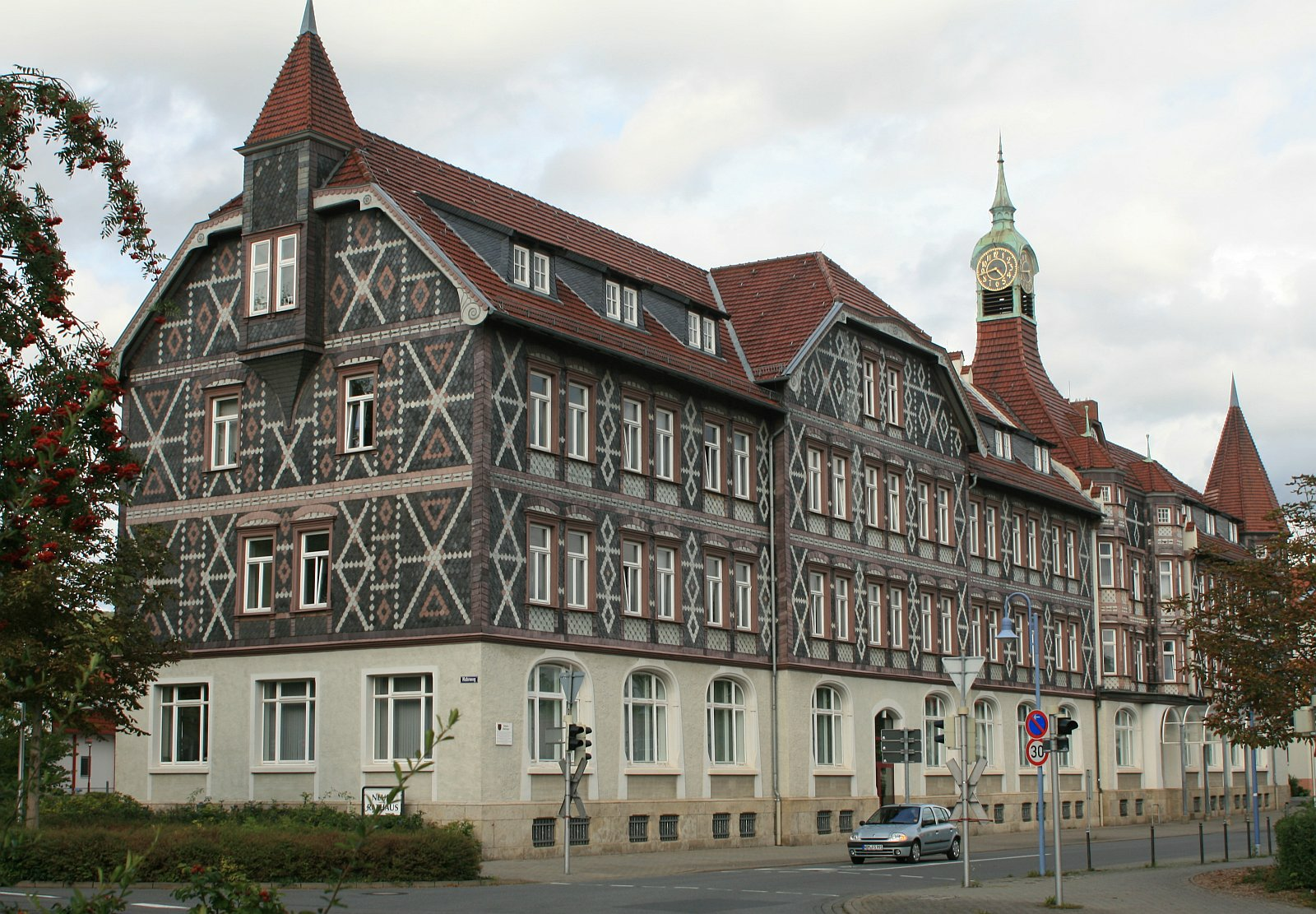 New Town Hall in Einbeck, Germany (Prussian barracks building from 1868; since 1907 catalogue company August Stukenbrok; bicycle company Heidemann; since 1996 administrative center of the town)